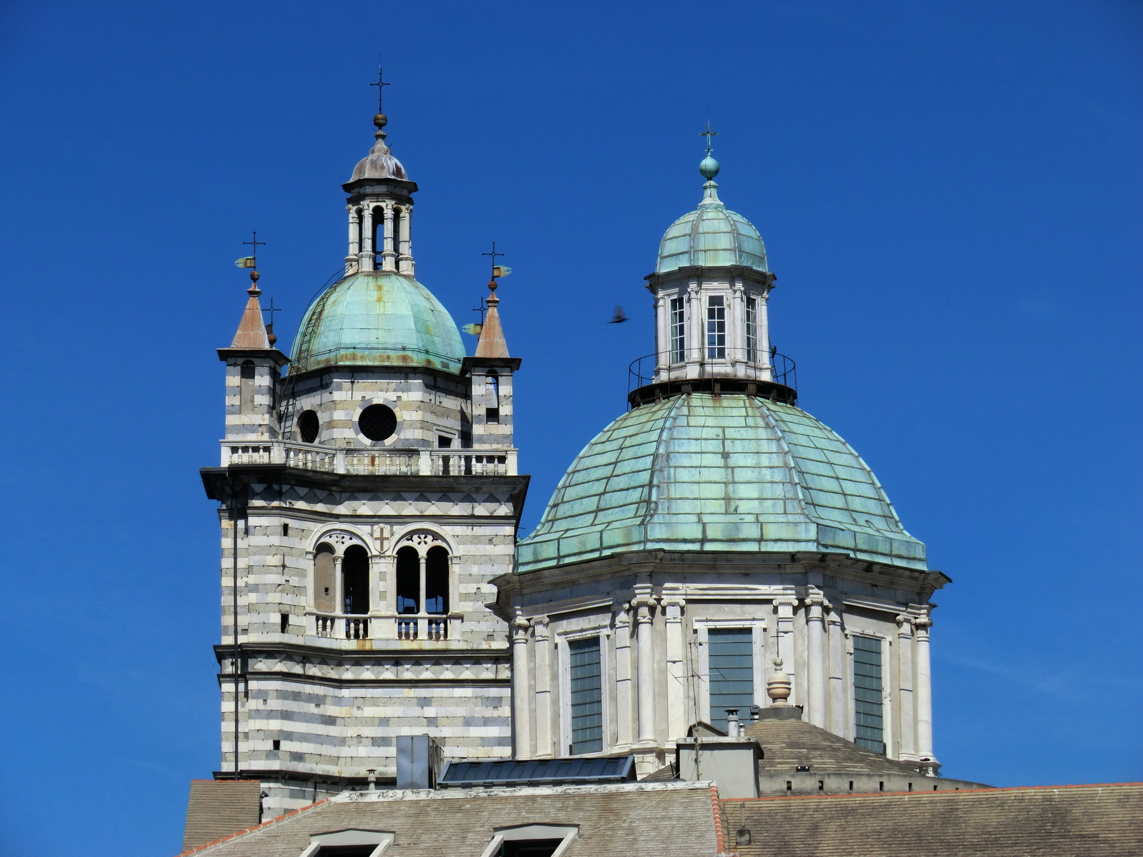 Genoa Cathedral Native nameCattedrale di San LorenzoLocationGenoa, Liguria, ItalyCoordinates44° 24′ 27.7″ N, 8° 55′ 53.4″ E Established1118: consecrated17th century date QS:P,+1650-00-00T00:00:00Z/7: finished constructionAuthority control : Q1306549 GND: 4231472-0 institution QS:P195,Q1306549